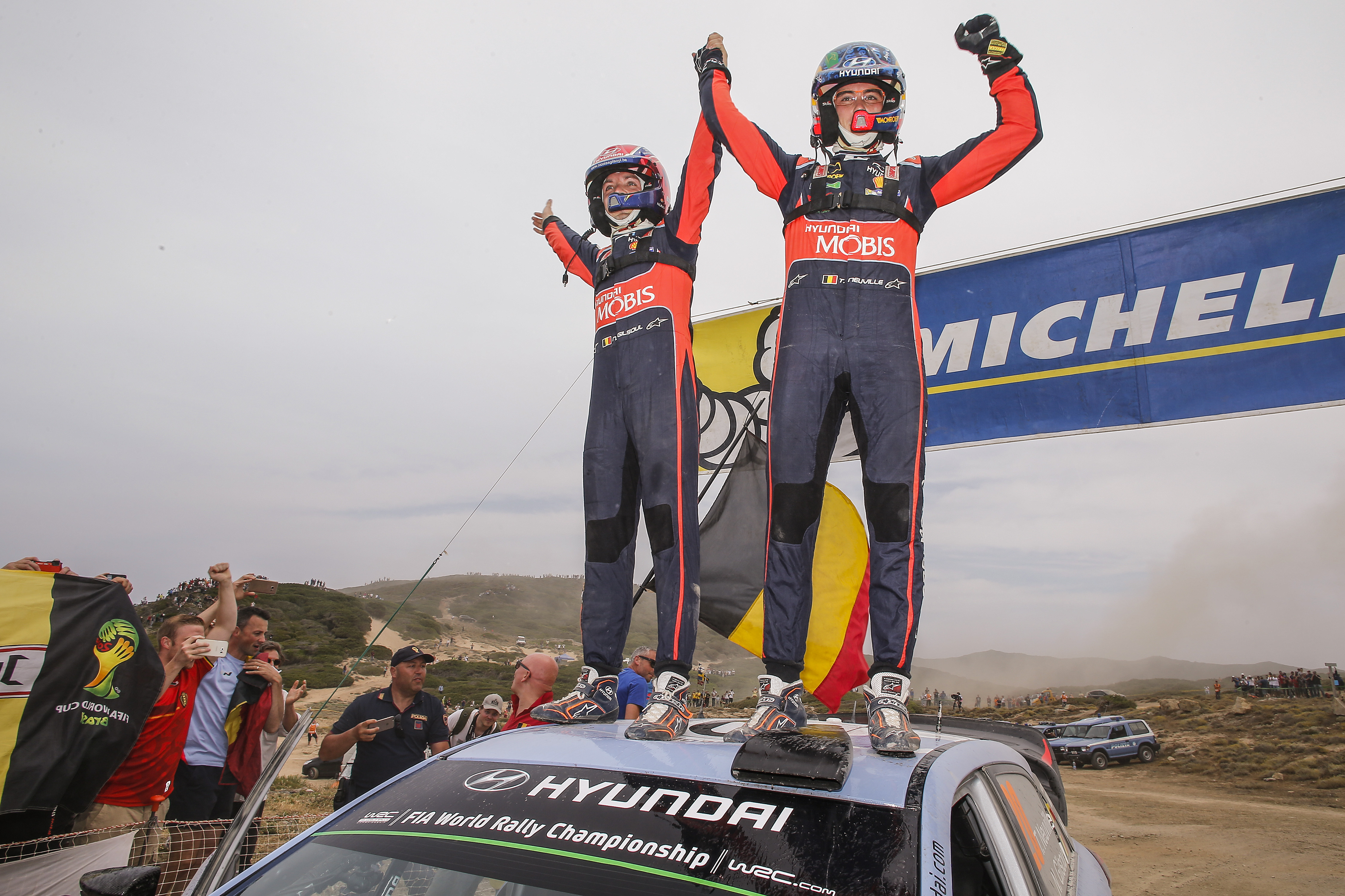 2016 FIA World Rally Championship / Round 06 / Rally d'Italia Sardegna // June 09-12, 2016 //